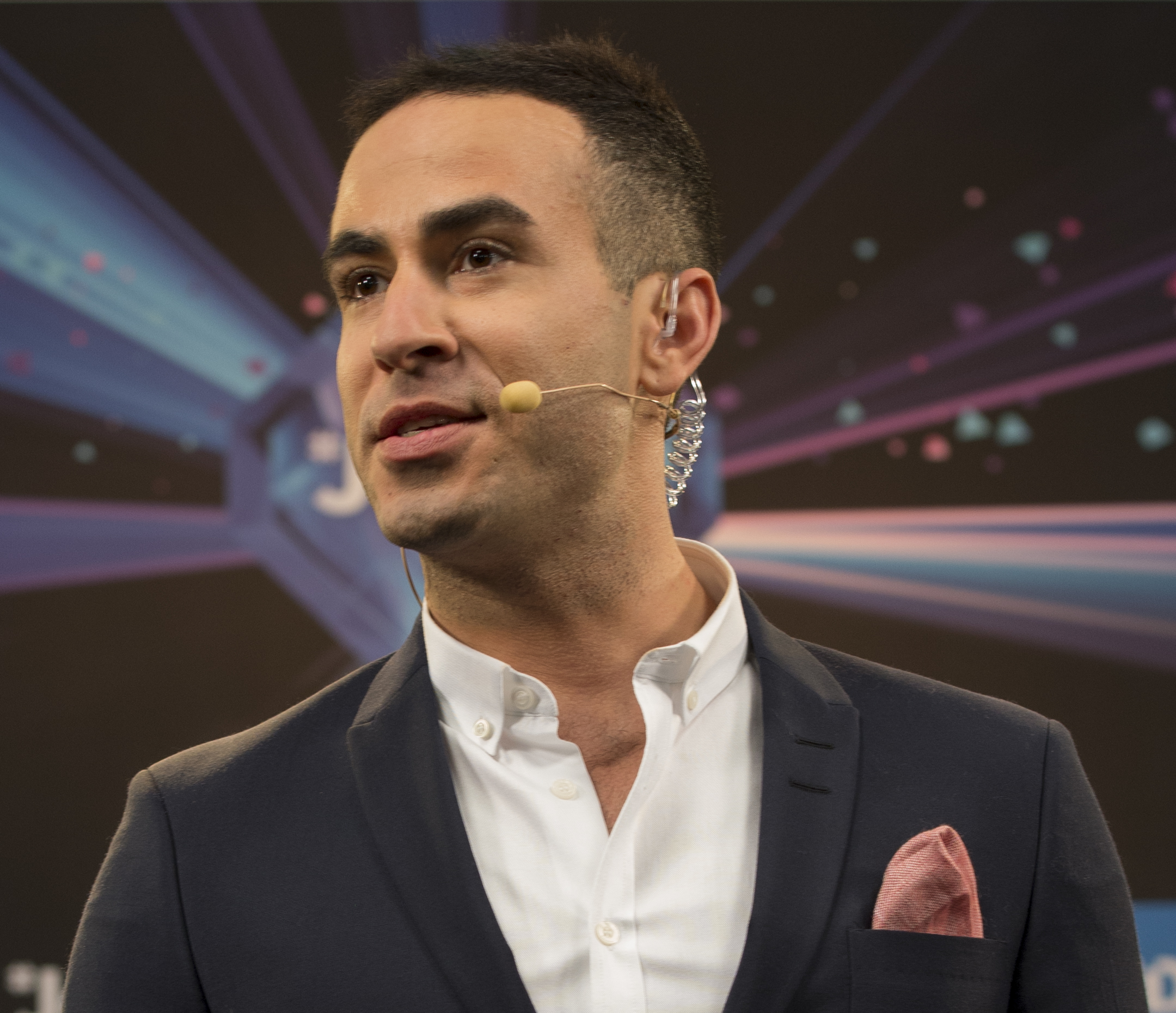 Abdel Aziz Mahmoud hosting a Meet & Greet in the press centre for the Eurovision Song Contest 2014.